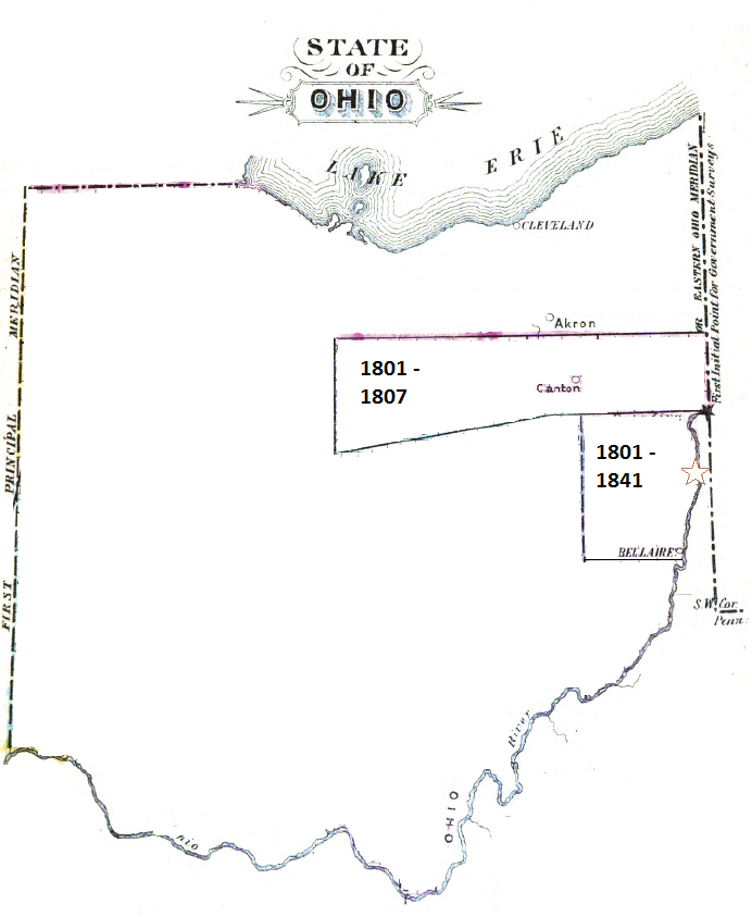 The lands sold by the Federal Land Office in Steubenville, Ohio from 1801 to 1841.